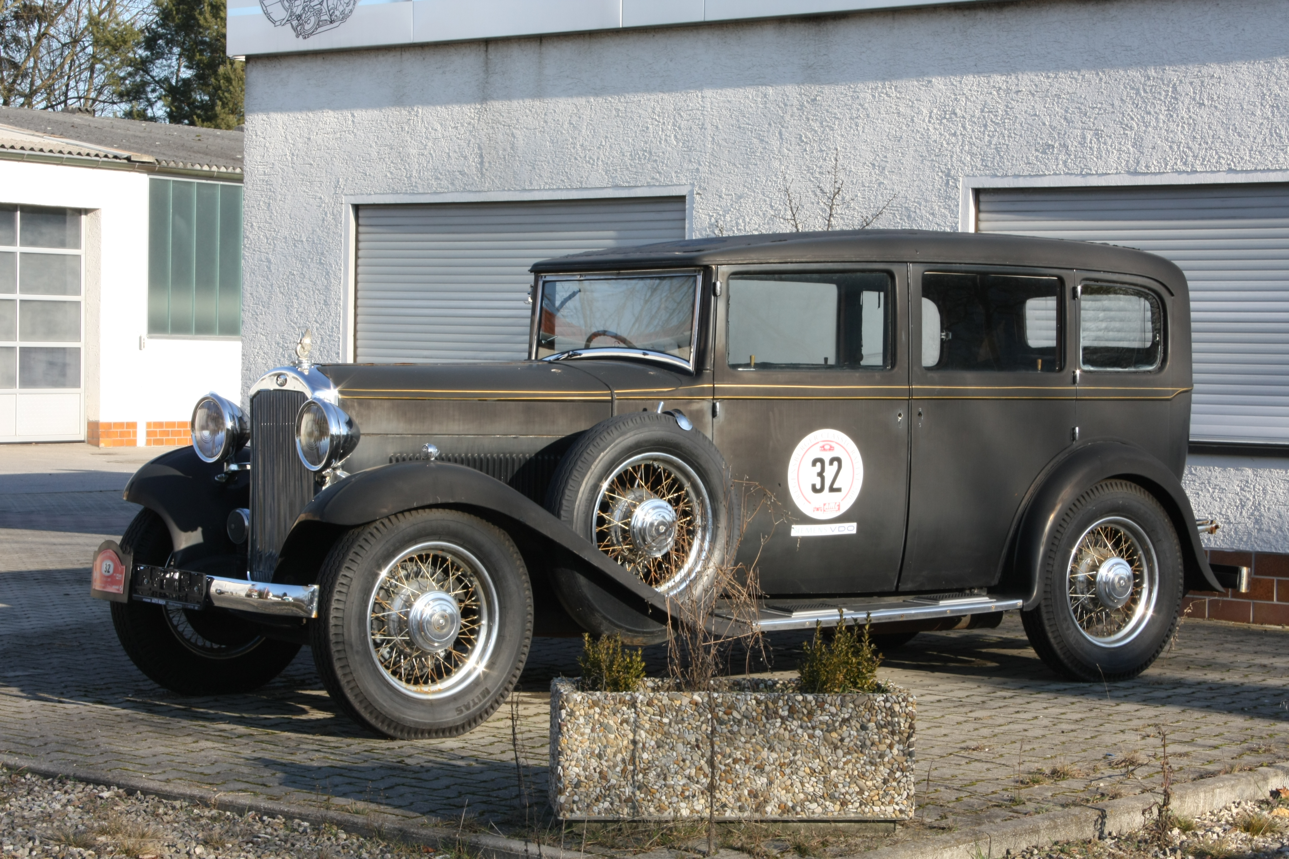 1932 Humber Snipe 80